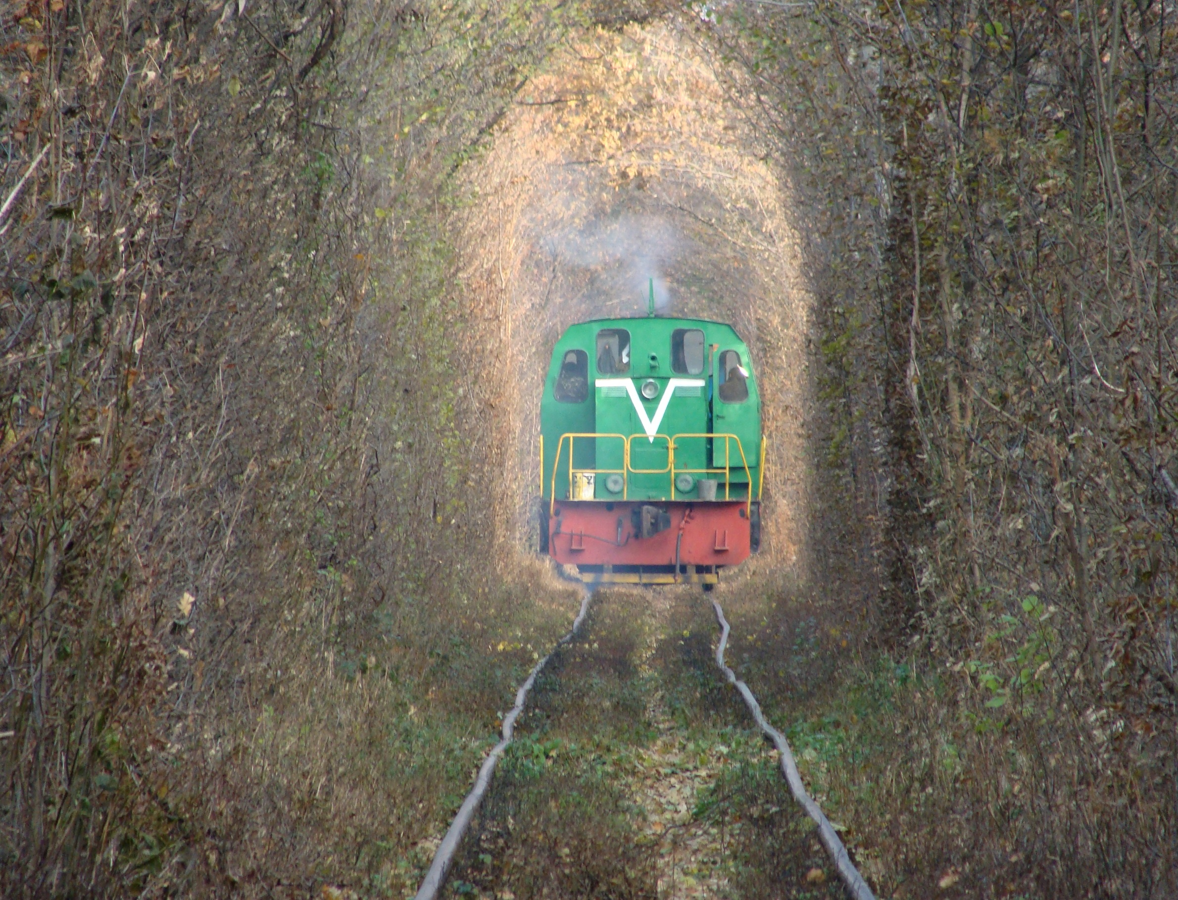 "Green Mile Tunnel" or "Tunnel of Love" in Rivne, Ukraine